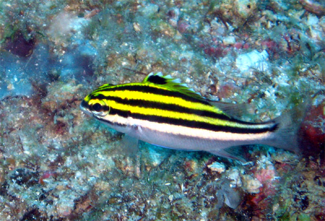 Juvenile bridled monocle bream (Scolopsis bilineatus), Pulau Aur, West Malaysia